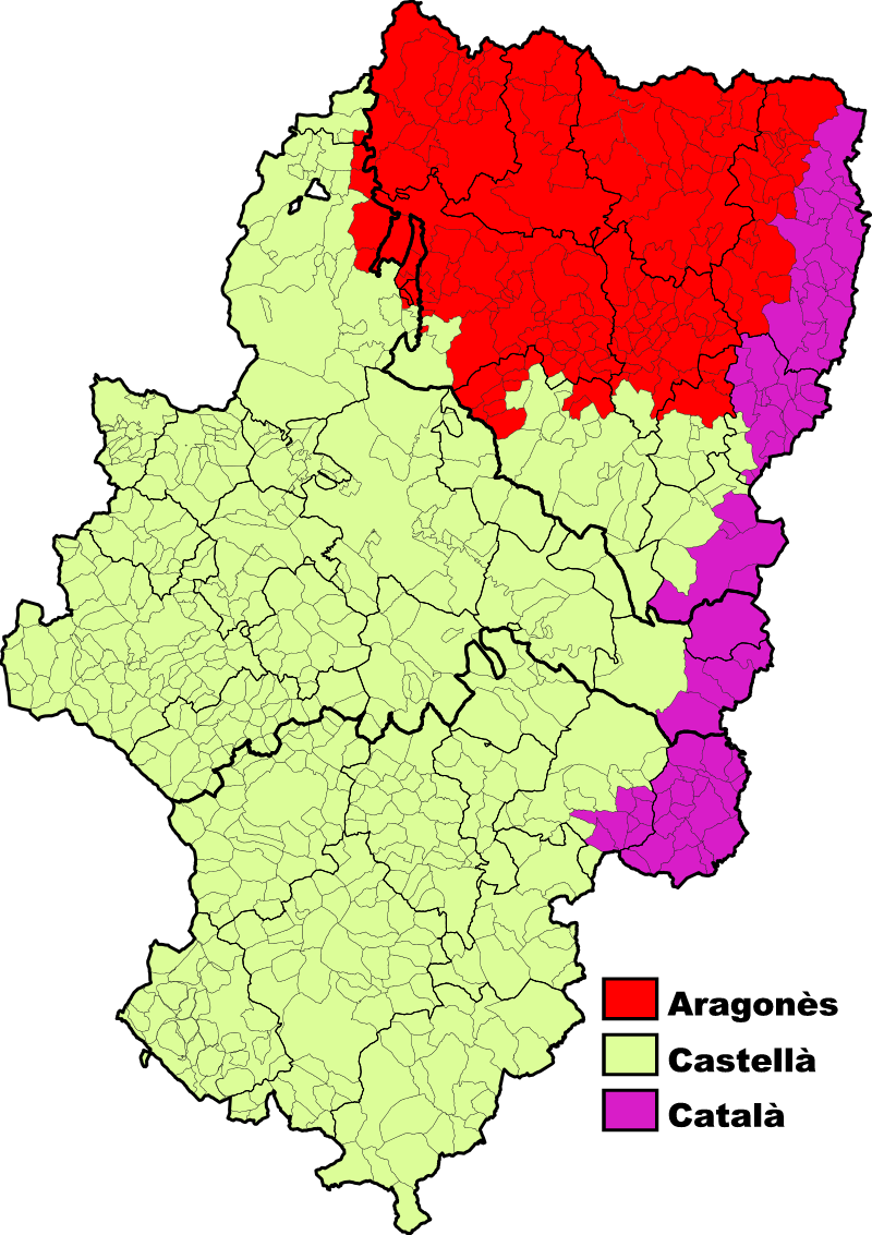 Zones of predominance of the languages of Aragon according to the Anteproyecto de Ley de Lenguas de Aragón of the 2001.